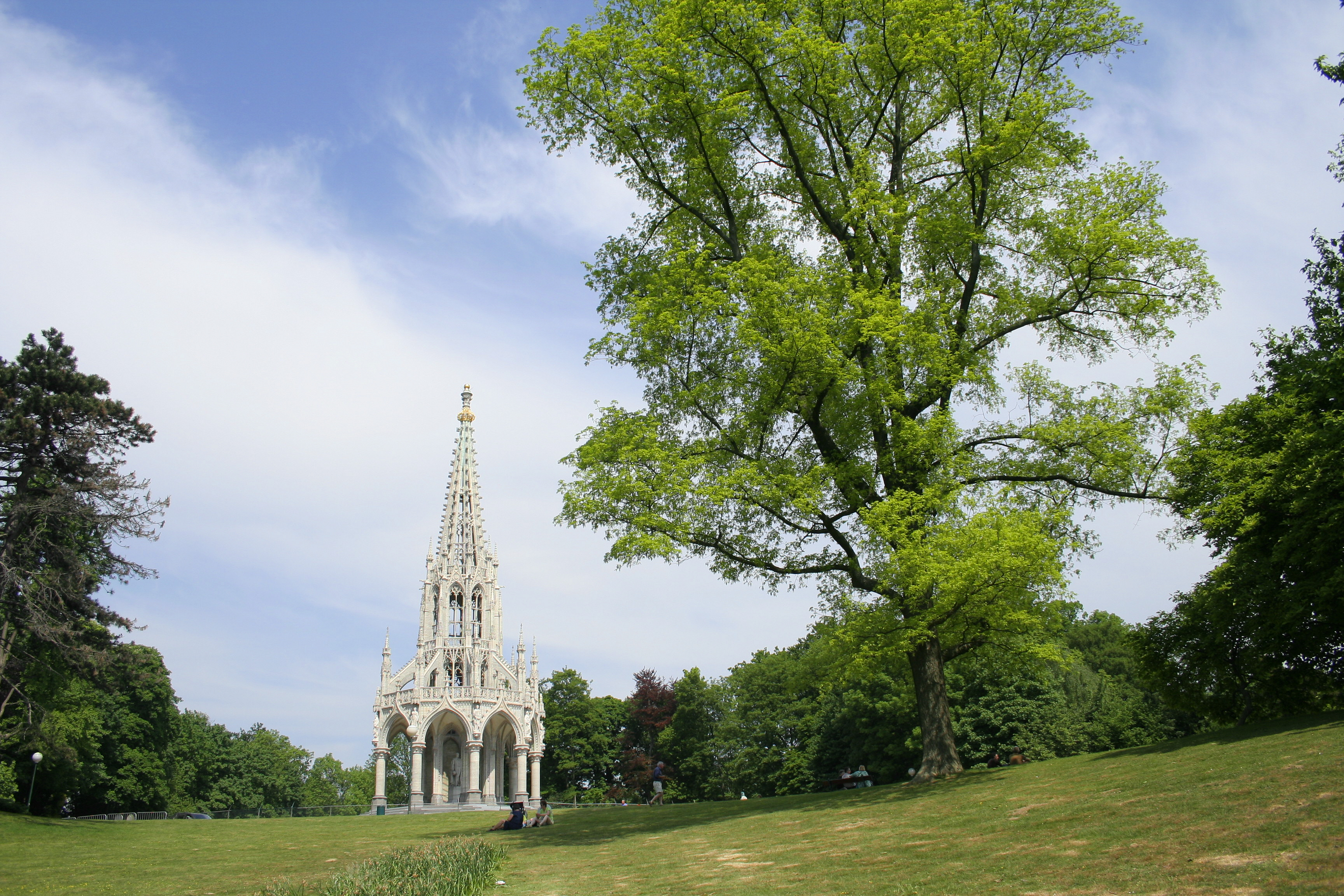 Laken (Belgium), the park (architect:Edouard Keilig - 1876-1880) and the monument of the dynasty (architect:De Curte - 1880).